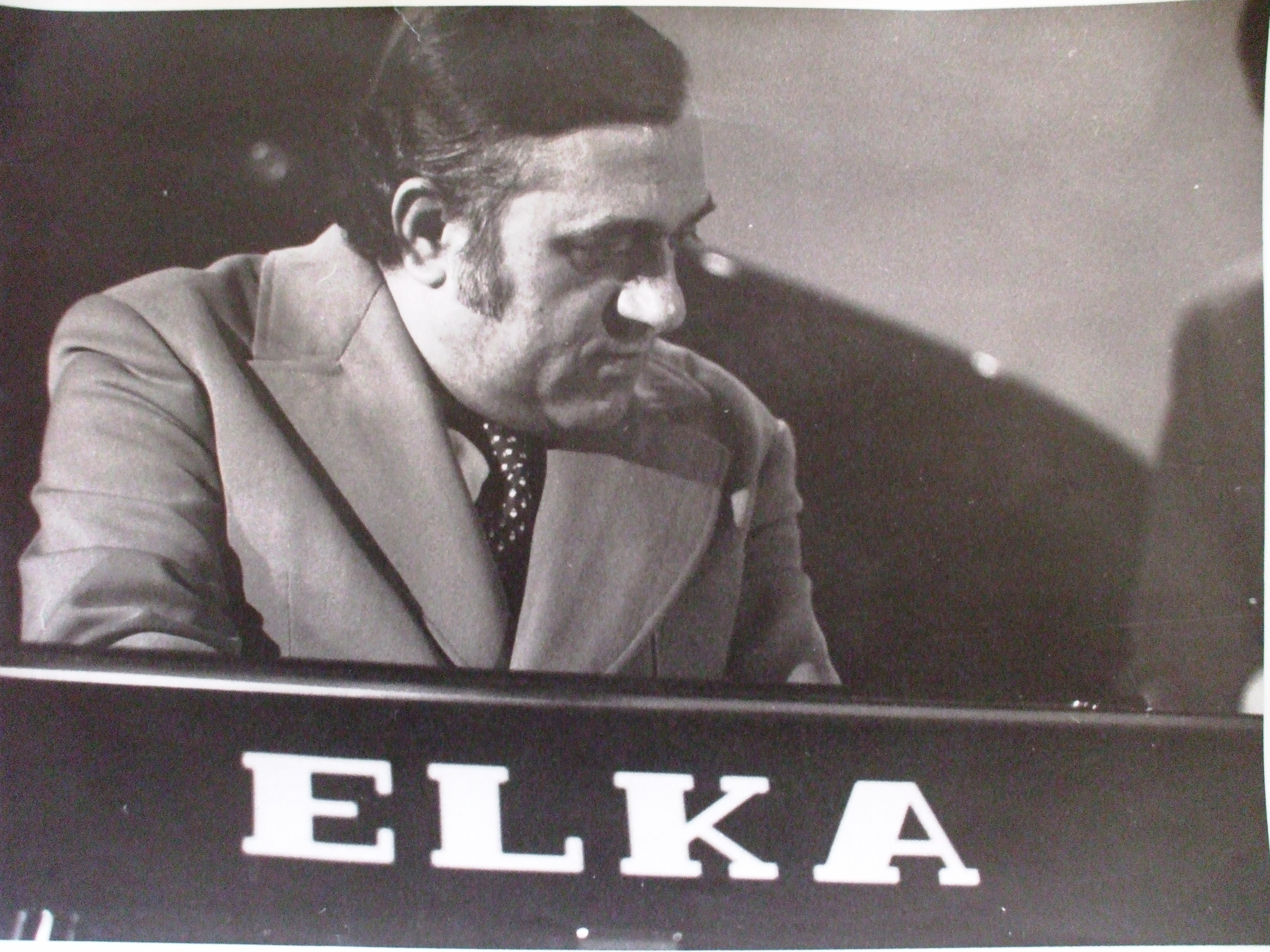 Colompar Andrei